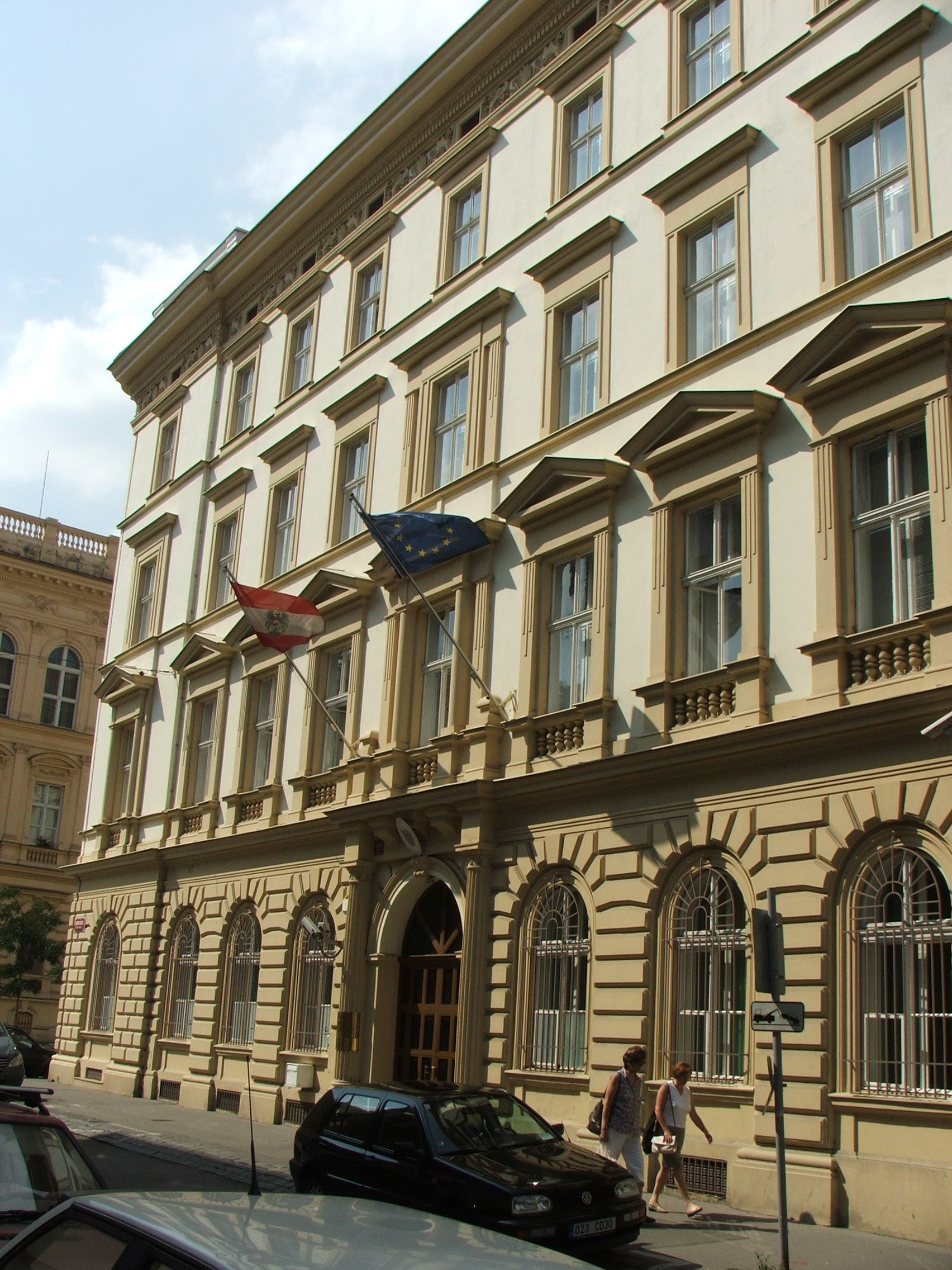 Embassy of Austria in Prague-Smíchov, Czechia